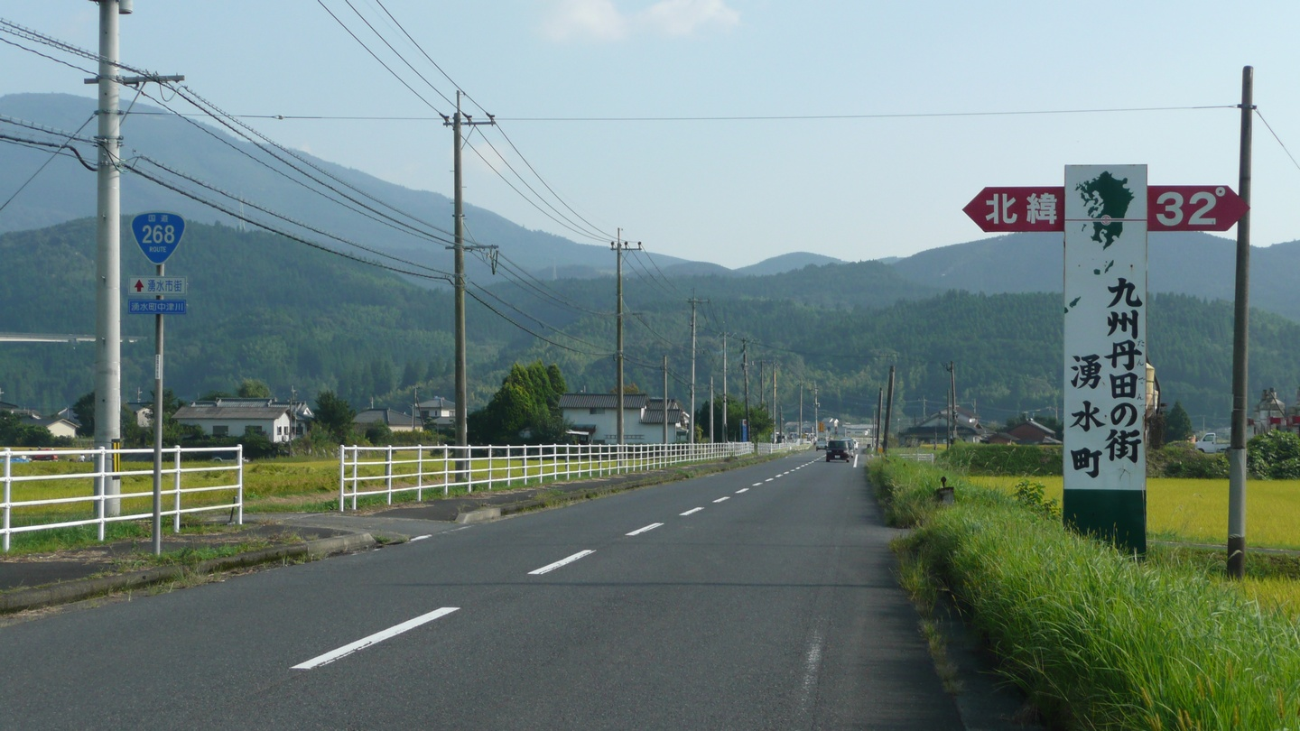 National Route 268 (Yusui Town, Kagoshima, Japan)